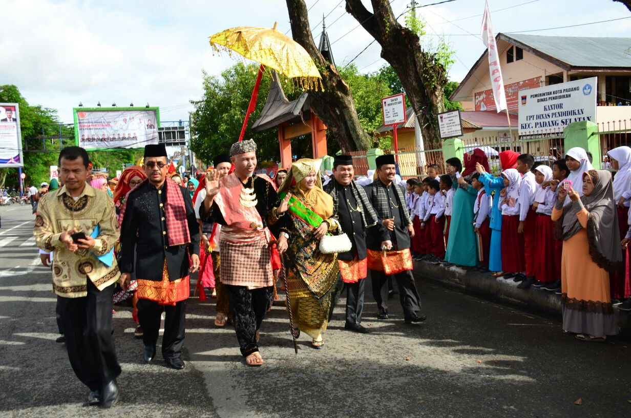 Mahyeldi Ansharullah Datuak